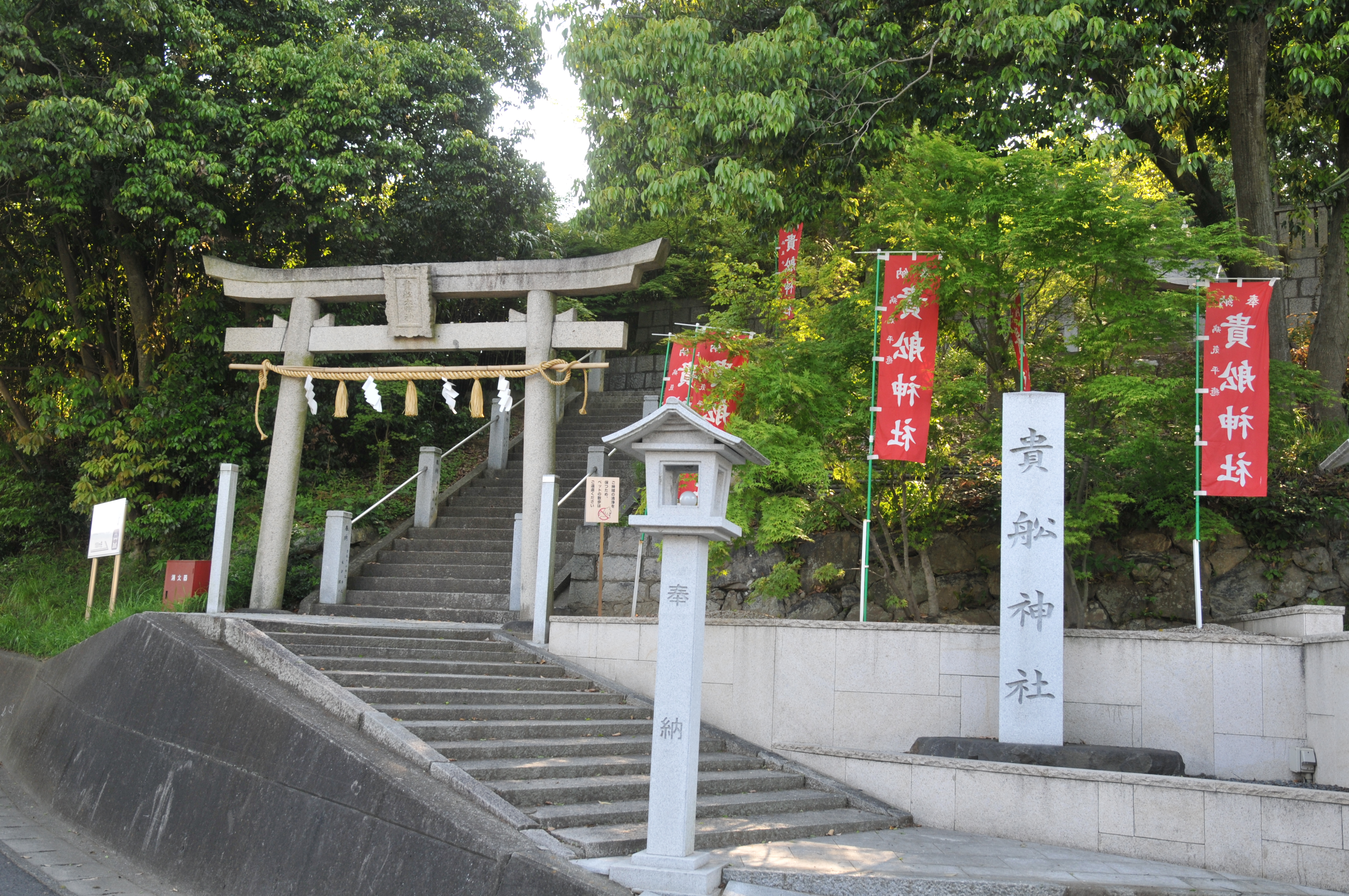 Entrance of Kifune-jinja